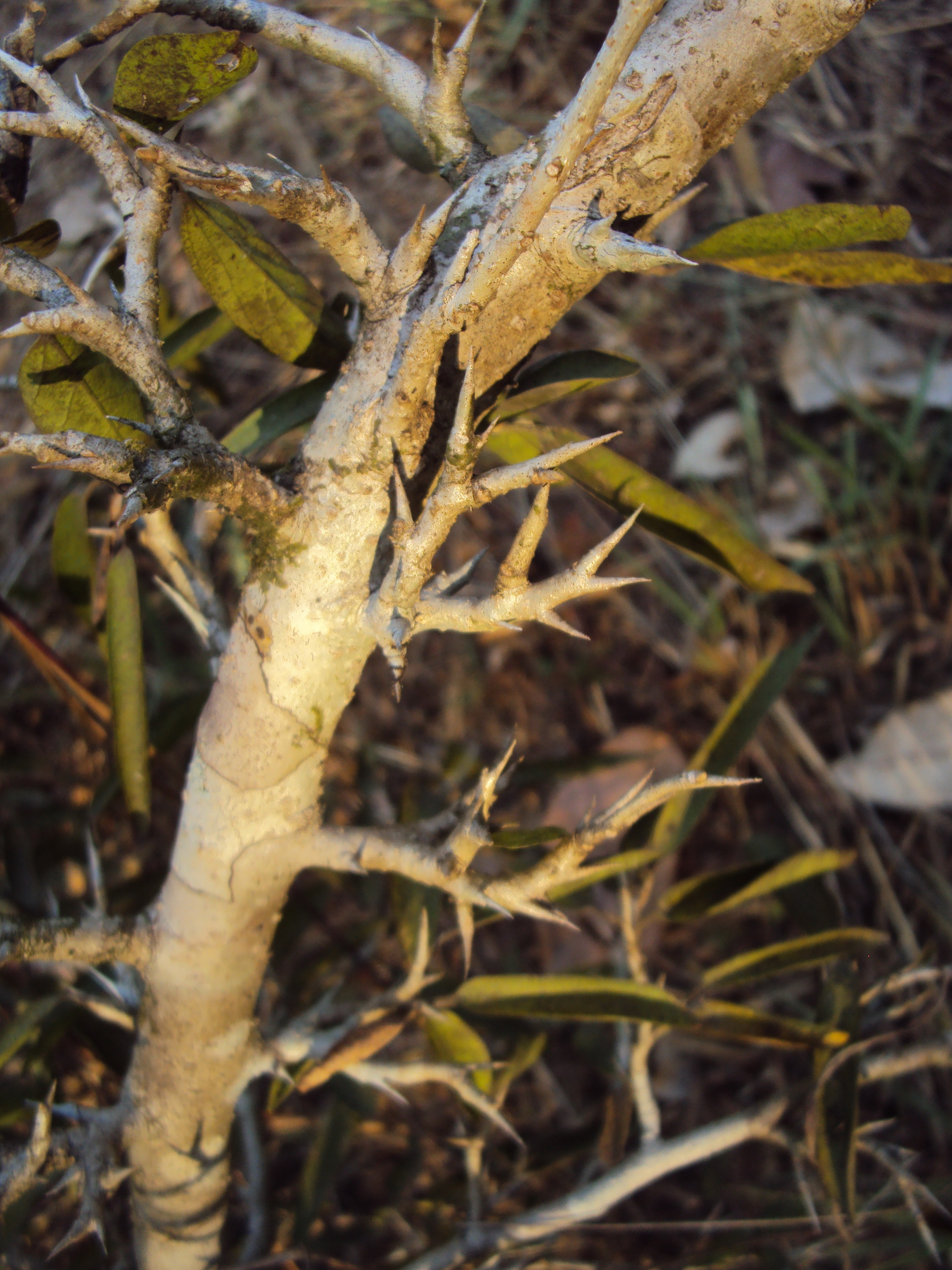 Alangium salviifolium